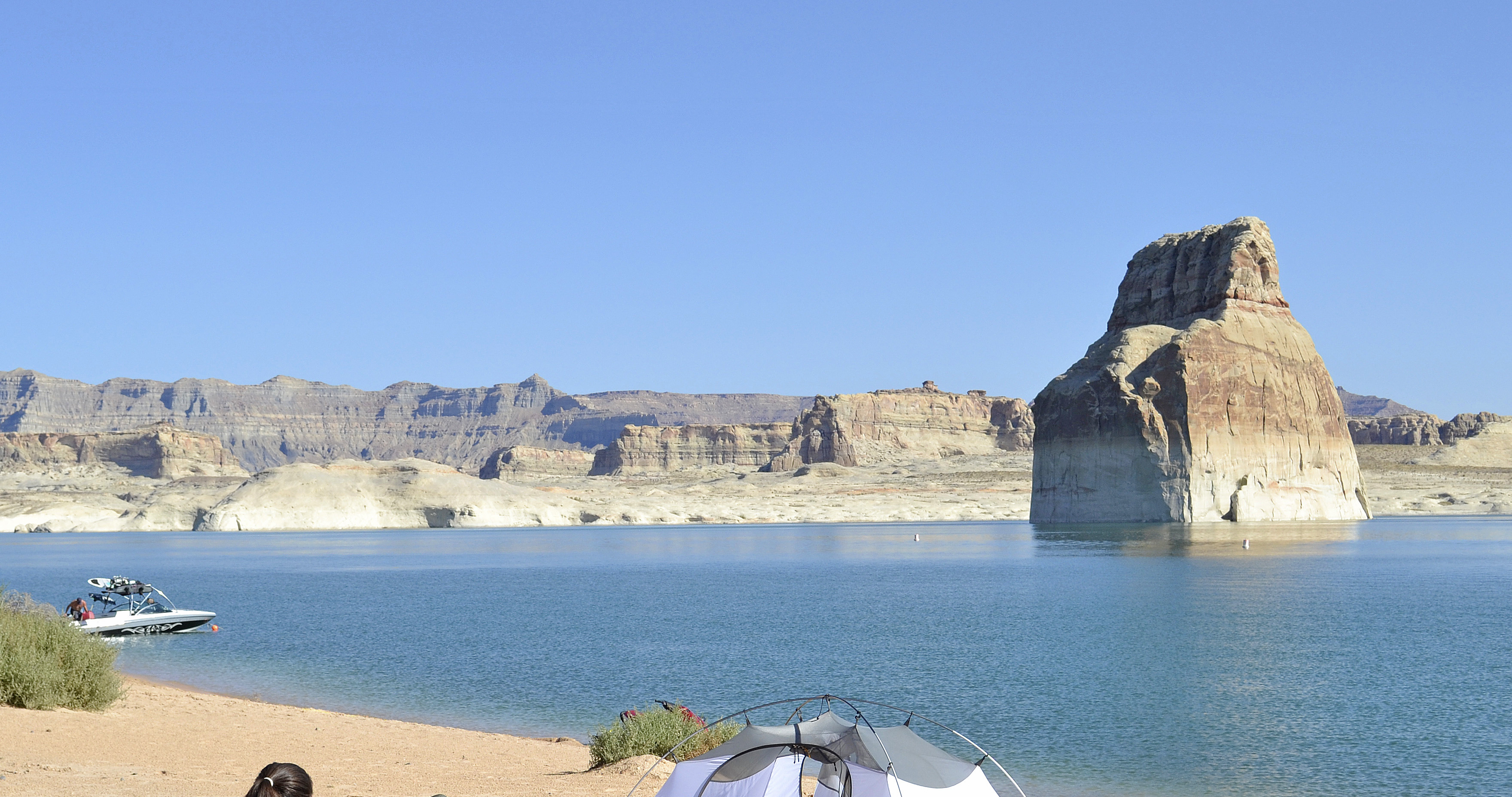 Lone Rock Beach is a popular primitive camping area with both vehicle and boat access to lake Powell. Sit back and relax on the shores of Lake Powell.